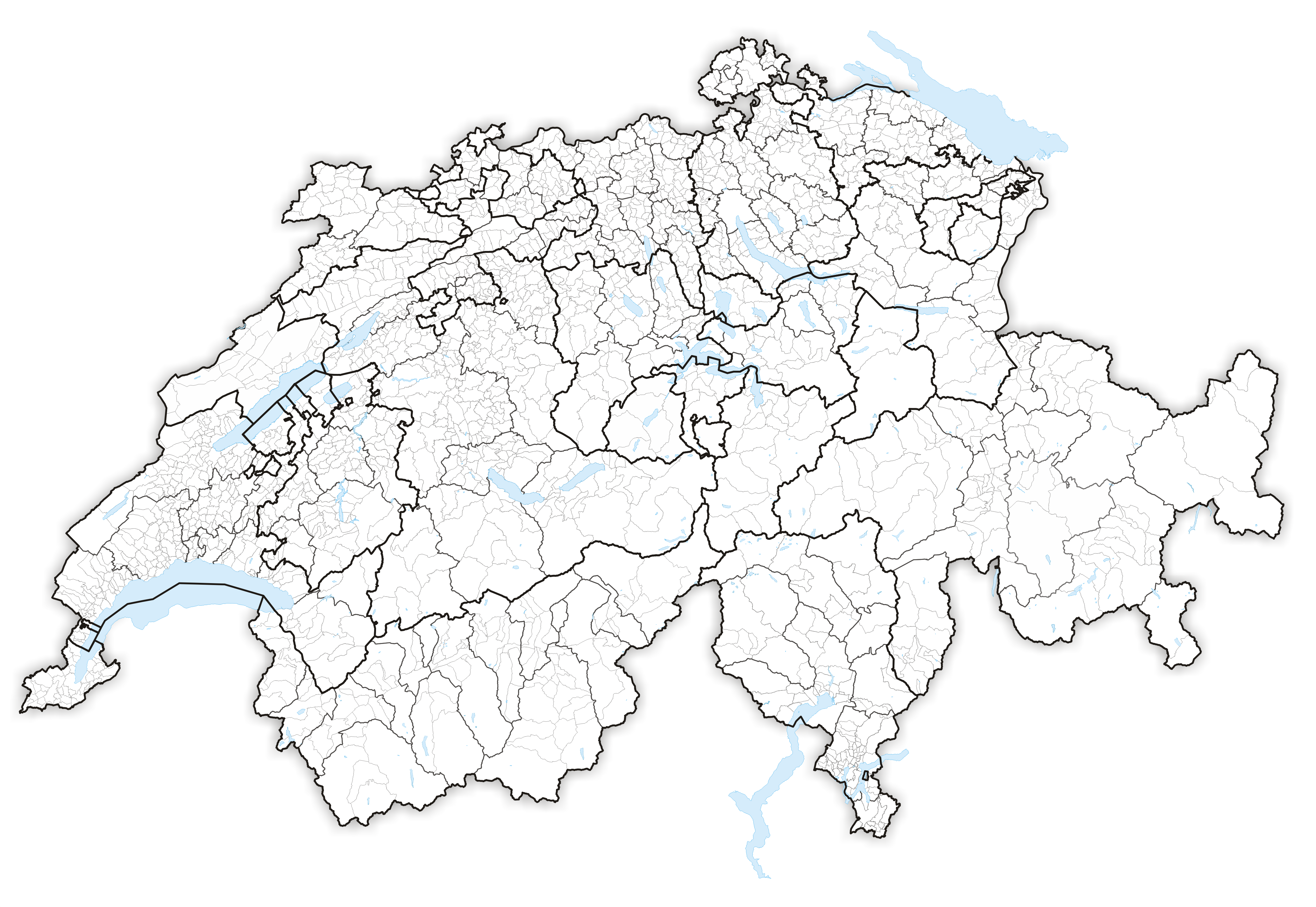 Municipalities in Switzerland